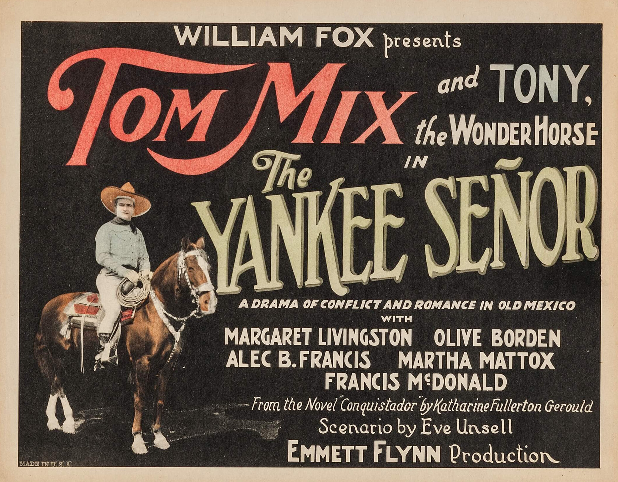 Lobby card for the film The Yankee Señor (1926).